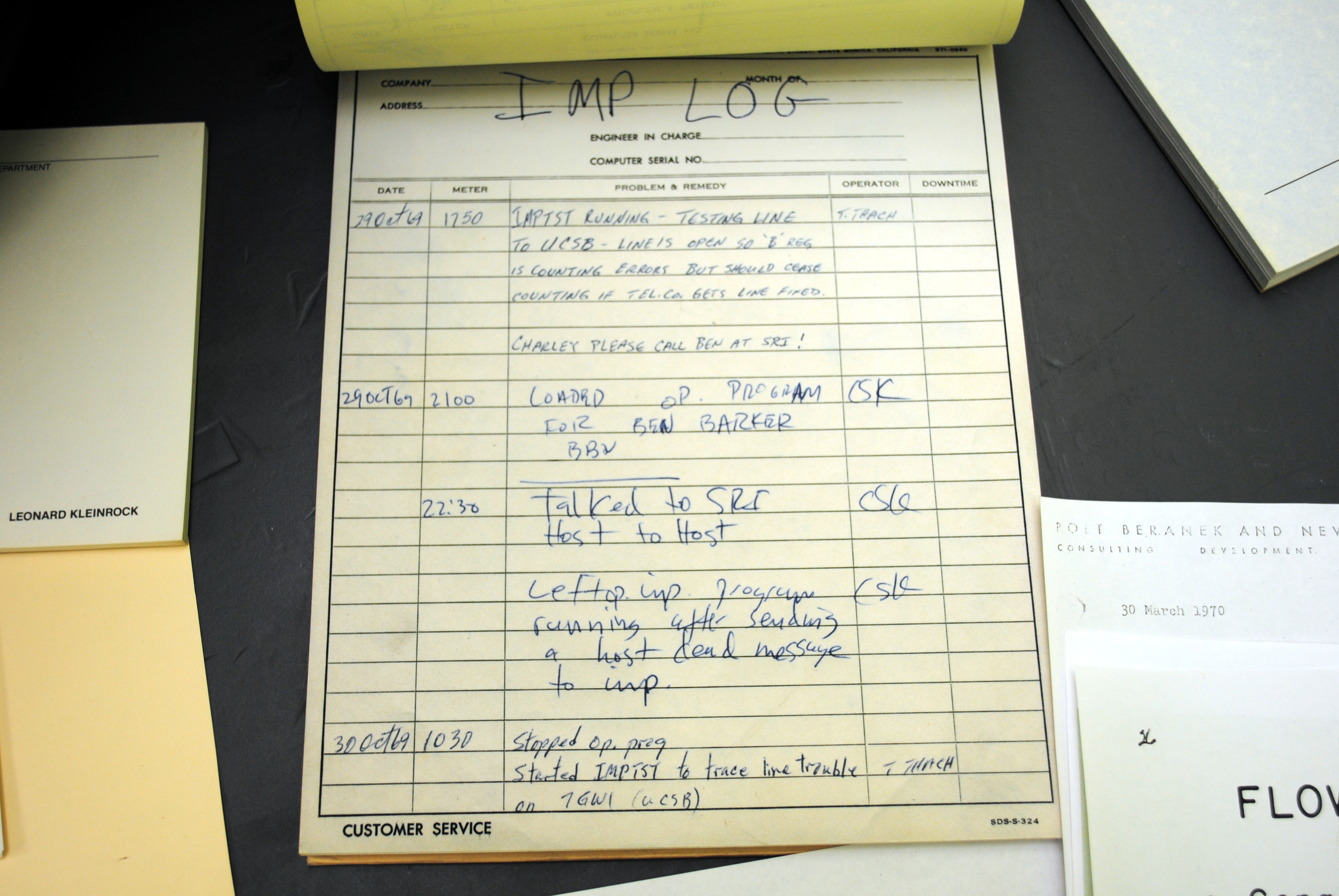 Today, 29 October 2011, is the 42nd birthday of the Internet. This page from the IMP (Interface Message Processor) log from 29 October 1969 records the date and time of the very first message ever sent on the Internet, sent on 29 October 1969 at 22:30 Pacific Time from Boelter Hall 3420 at UCLA (this room is now the Kleinrock Internet Heritage site, which now contains the original equipment used to transmit the first messages on the Internet - after all, it literally is the birthplace of the Internet). Today was also the grand opening of the museum, which I was present for. Charley Kline, who actually sent the very first message on the Internet (then the ARPANET), was there to tell the story of the first message ever sent on the Internet. The The Kleinrock Internet Heritage Site and Archive will soon open to the public. If you'd like to learn more about the museum, click here..